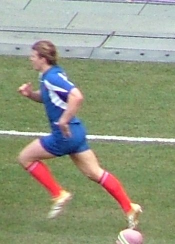 French rugby union player Aurélien Rougerie during the 2006 Six Nations match France - Ireland